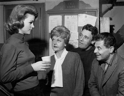 L-R: Lee Remick, Angela Lansbury, Harry Guardino, Herbert Greene backstage at Broadway production of Anyone Can Whistle.